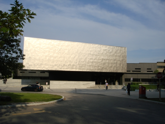 Author: SM108 Source: My Sony DSC-W100